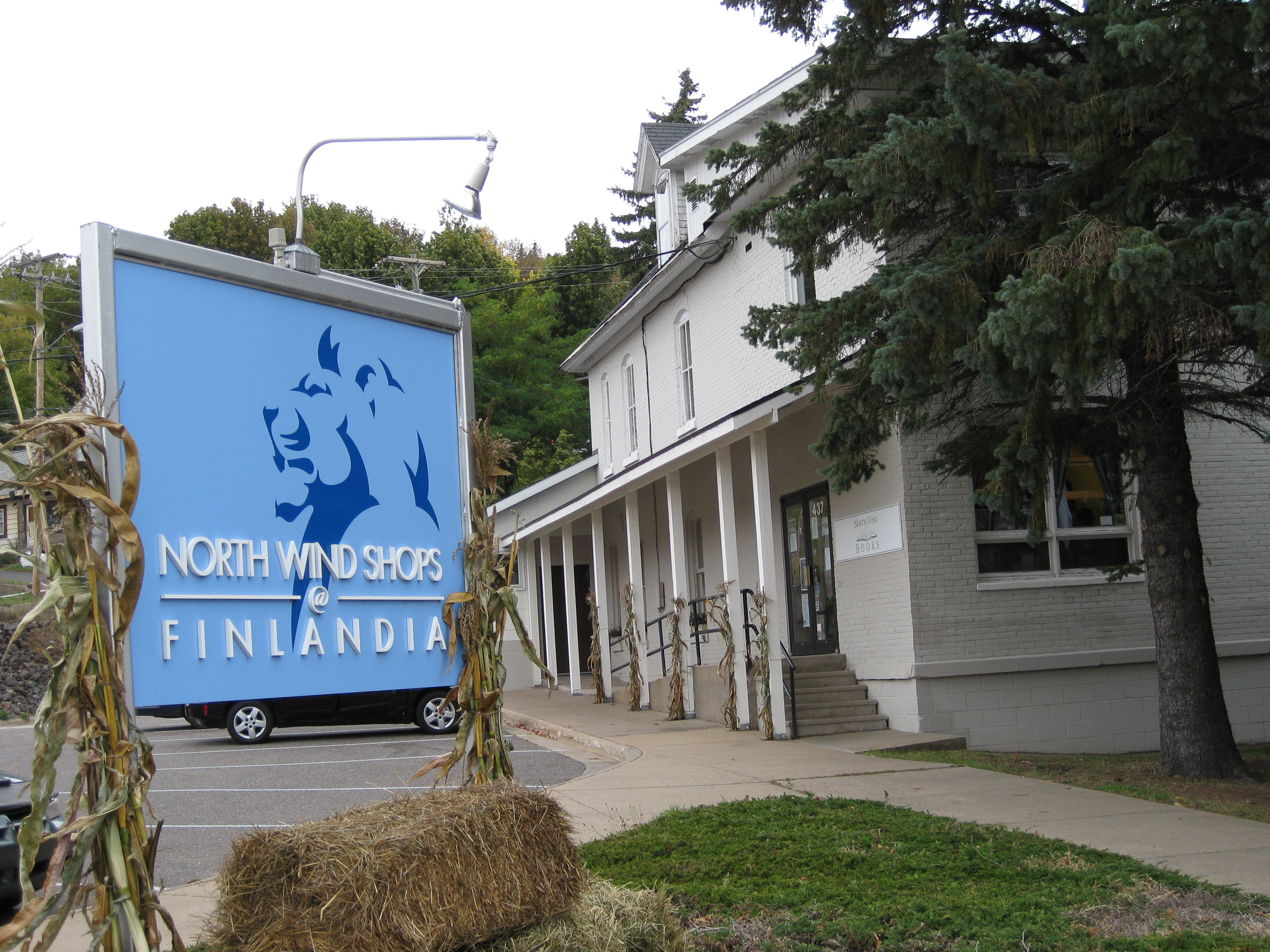 North Winds Shops